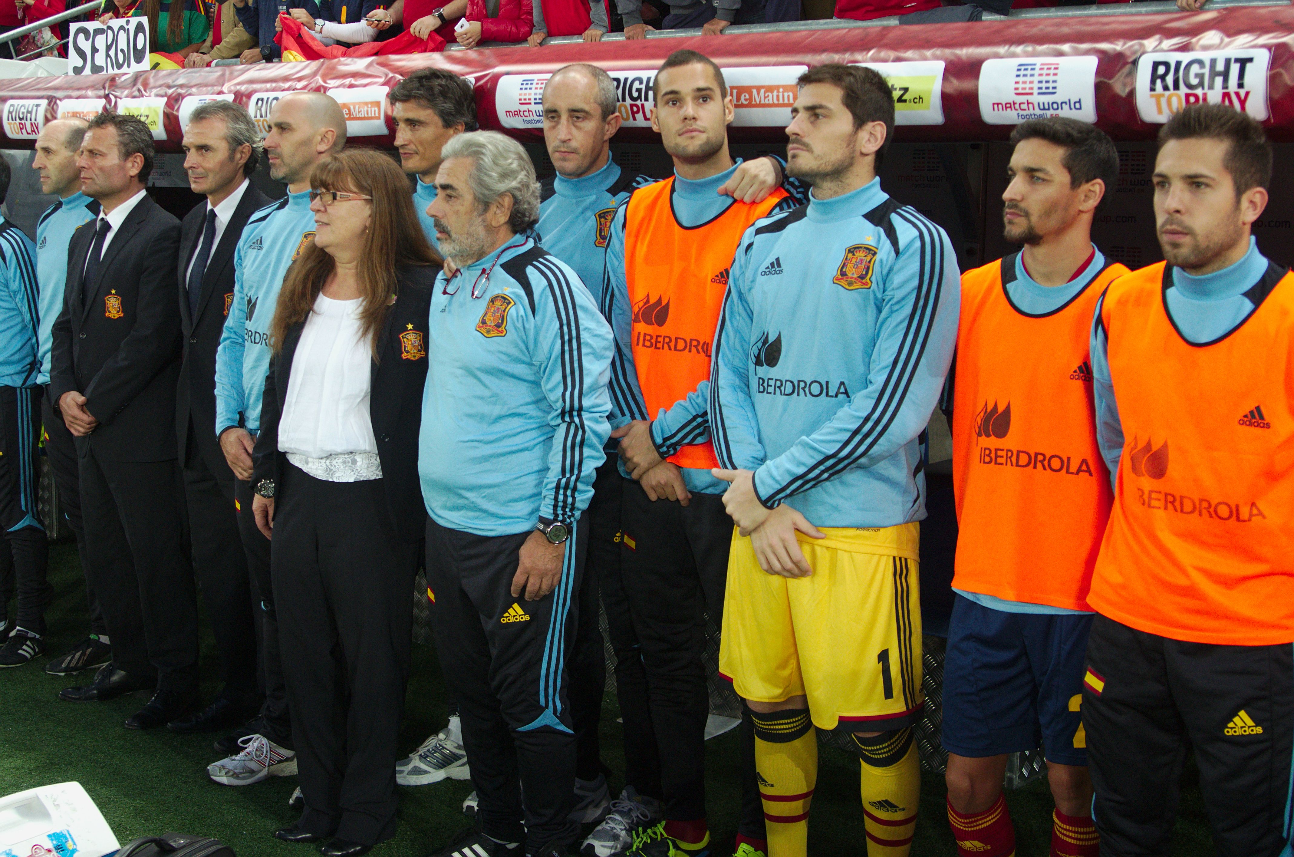 Spain - Chile - 10-09-2013 - Geneva - Staff, Mario Suarez, Iker Casillas, Jesus Navas and Jordi Alba